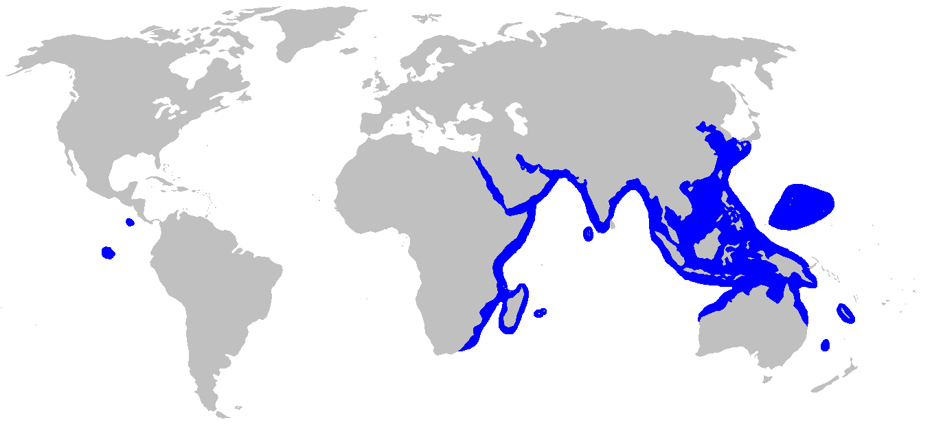 Distribution of the blotched fantail ray (Taeniura meyeni)